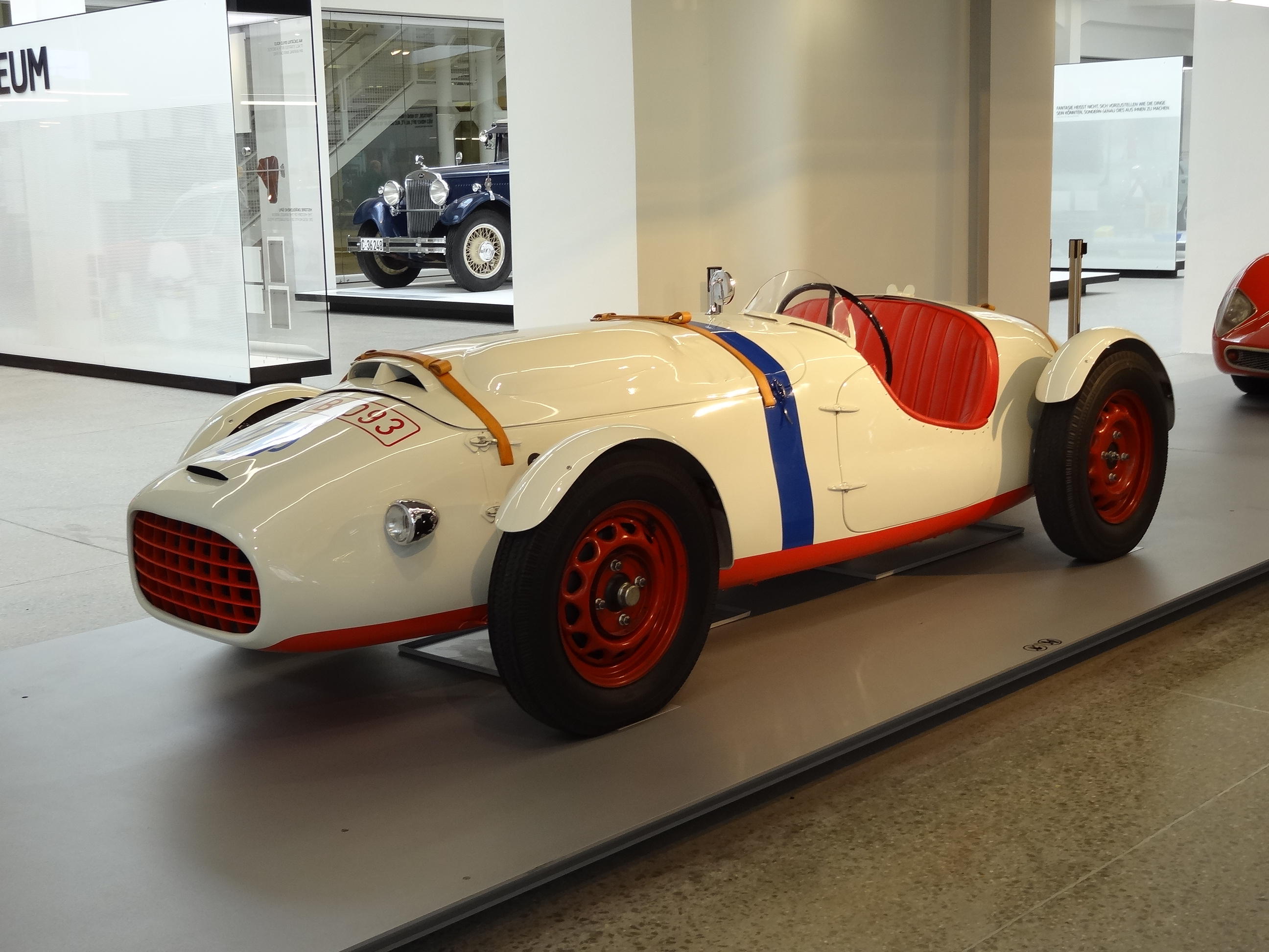 years of production: 1950, cylinders: 4, displacement: 1089 ccm with compressor, gearbox: 4+R, max speed 170 km/h